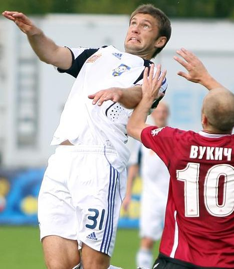 Yevhen Levchenko in FC Saturn Moscow Oblast